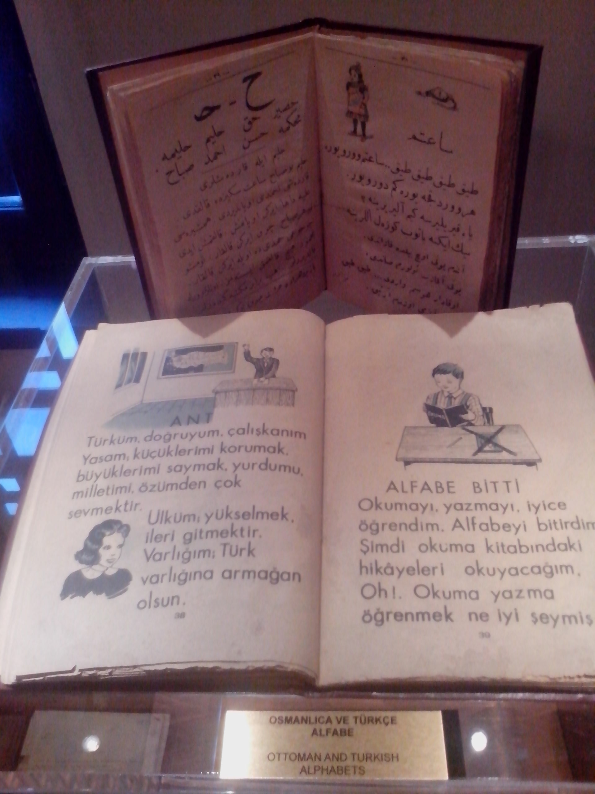 Arabic-based Ottoman Turkish and Latin-based modern Turkish alphabets from the 1920s and 1930s in the Second Grand National Assembly of Turkey